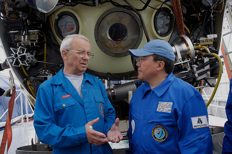 Elbegdorj talking to Anatoly Sagalevich after diving to the bottom of Lake Baikal in a submersible, becoming the first president to do that on 16 July 2010